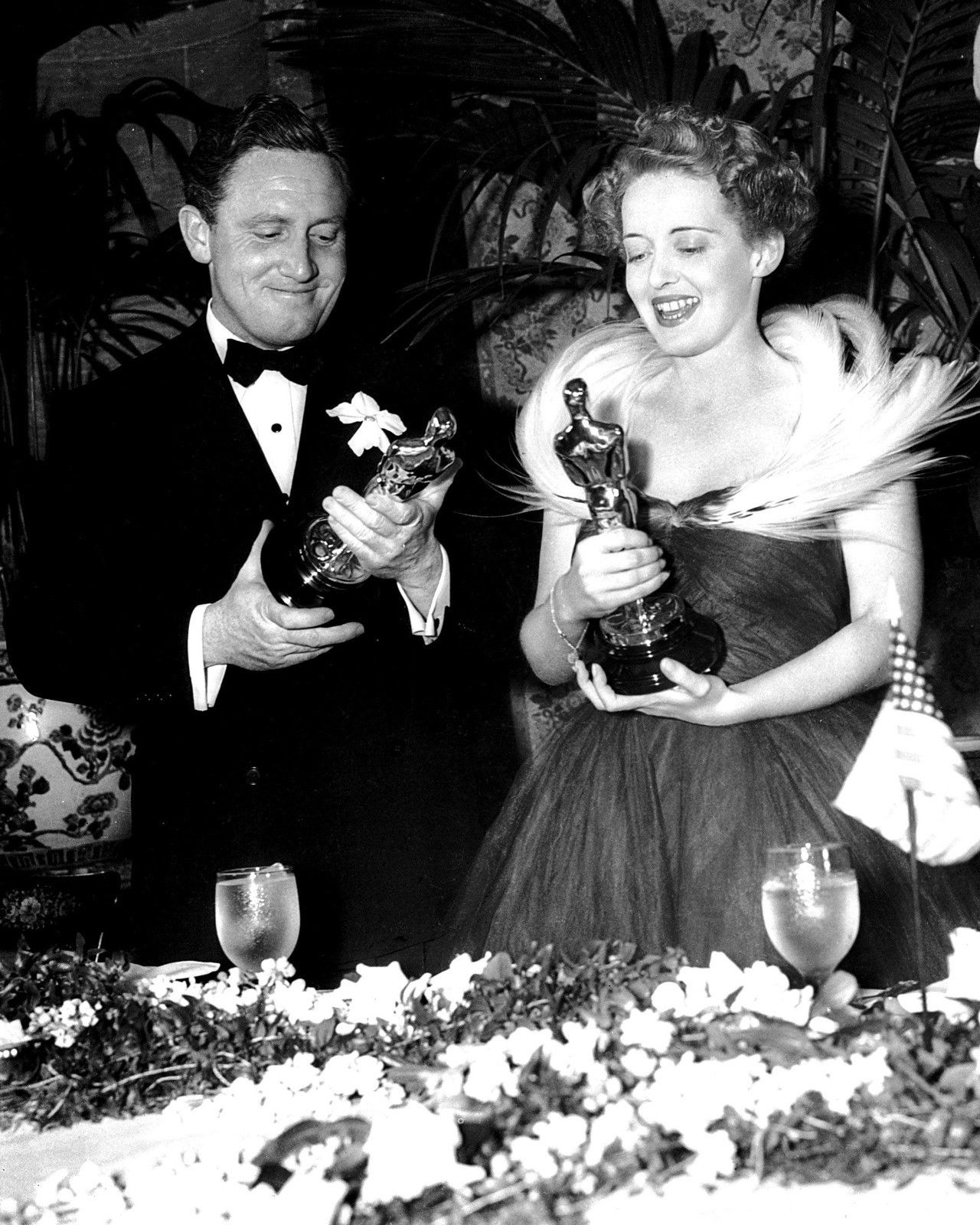 Spencer Tracy & Bette Davis at the Academy Award Ceremony, 1939